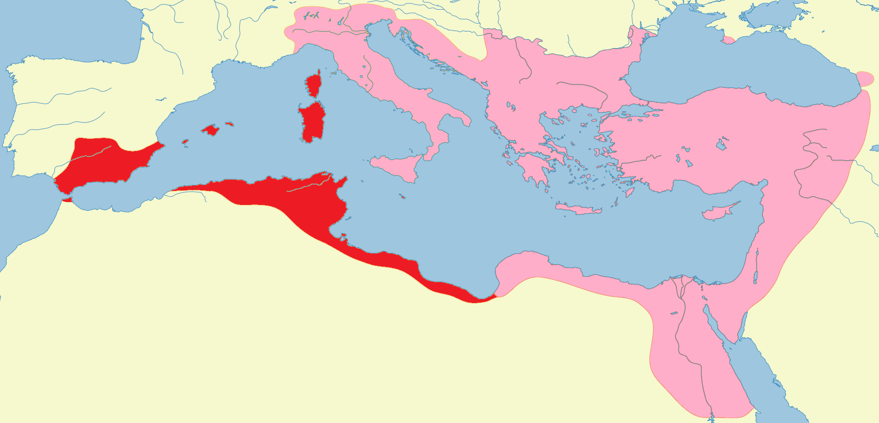 Map of the Exarchate of Africa within the Roman (Byzantine) Empire following Emperor Justinian's conquests. Based on